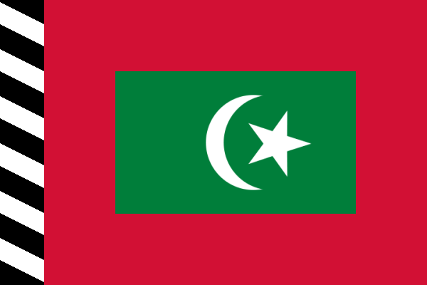 The flag adopted for the Sultan of the Maldives in 1965, displayed a white five pointed star between the horns of the crescent in the national flag.